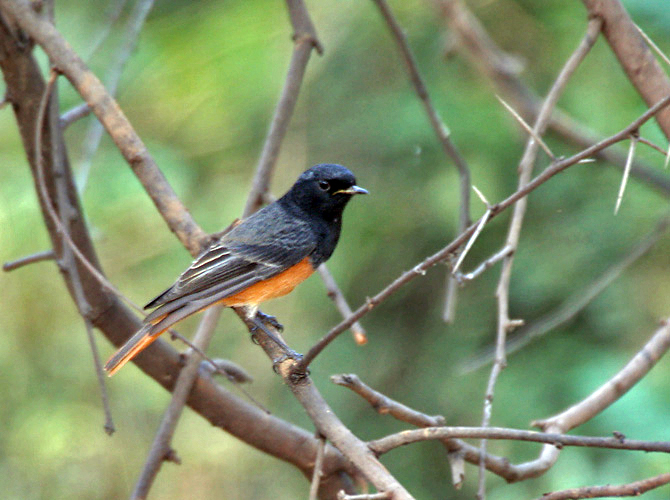 Black Redstart Phoenicurus ochruros at Sindhrot in Vadodara District of Gujarat, India.